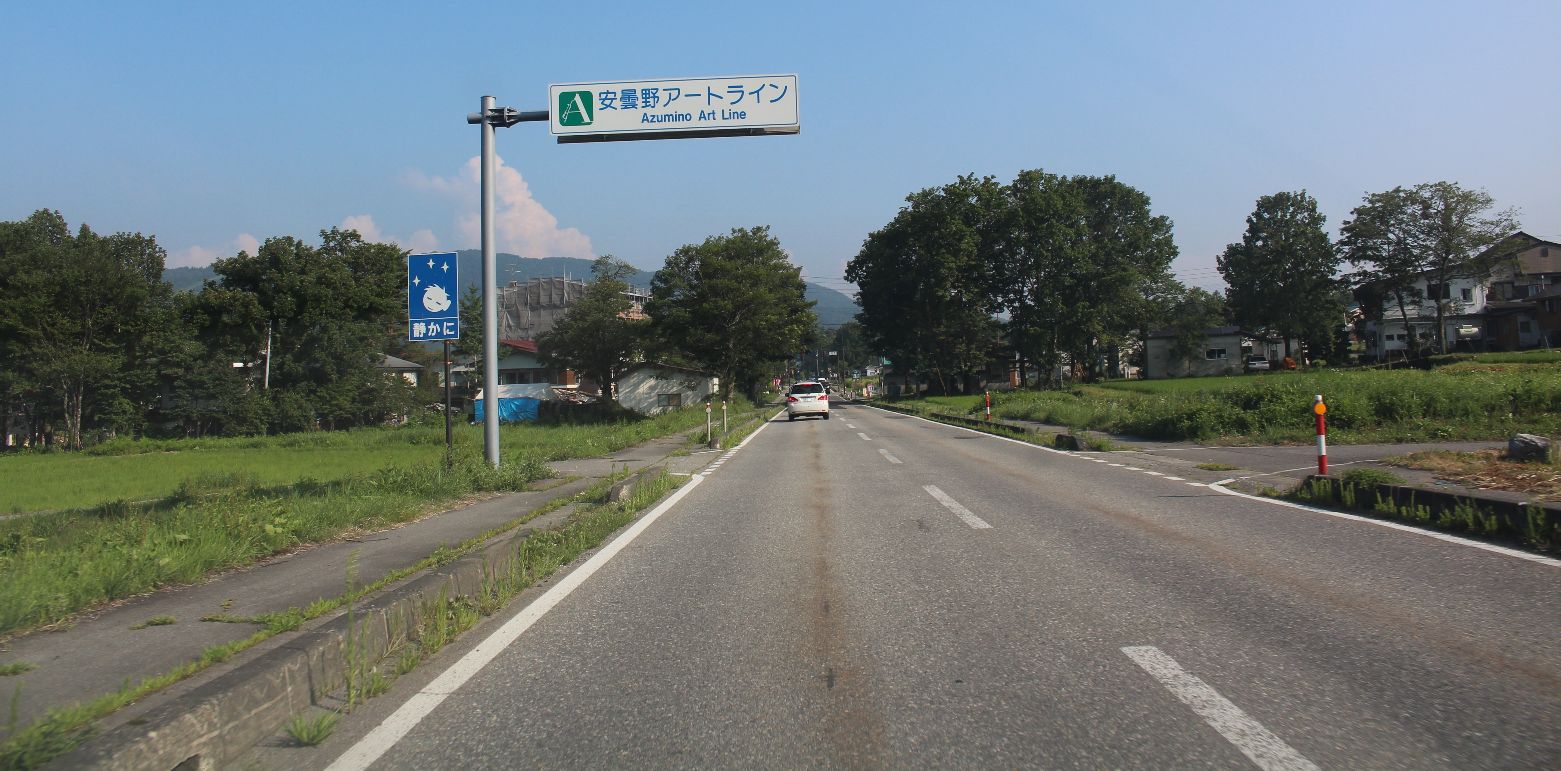 Azumino artline in Hakuba, Nagano prefecture, Japan.